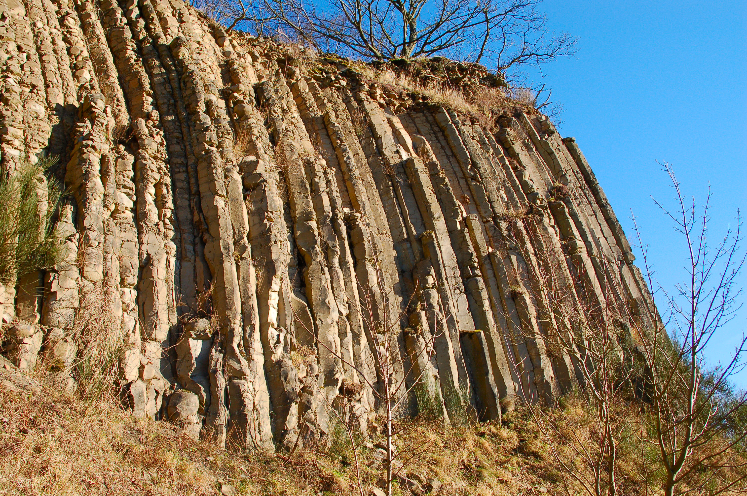 Hummelsberg, basalt colums